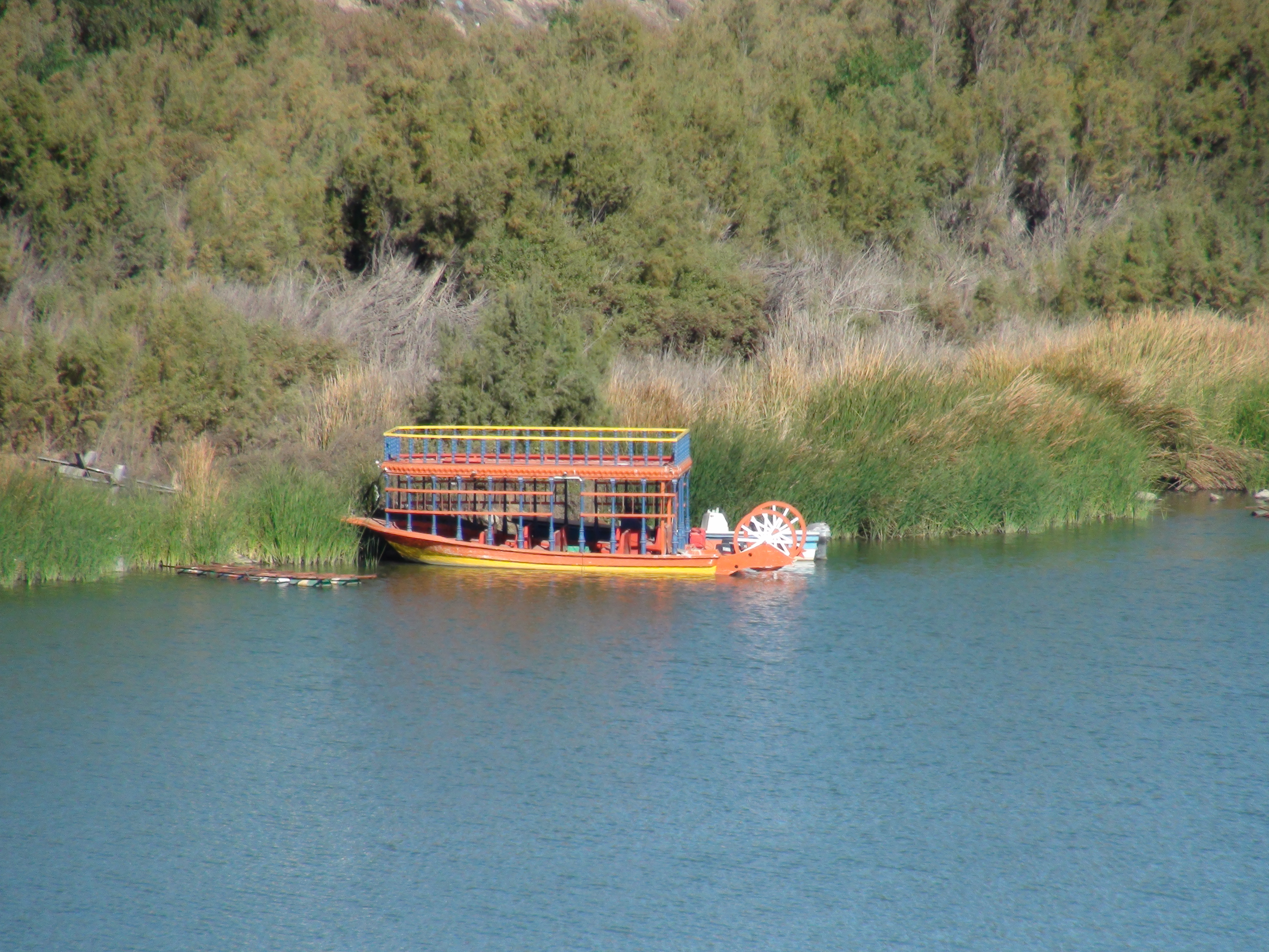 Boat on the water dam of Abha